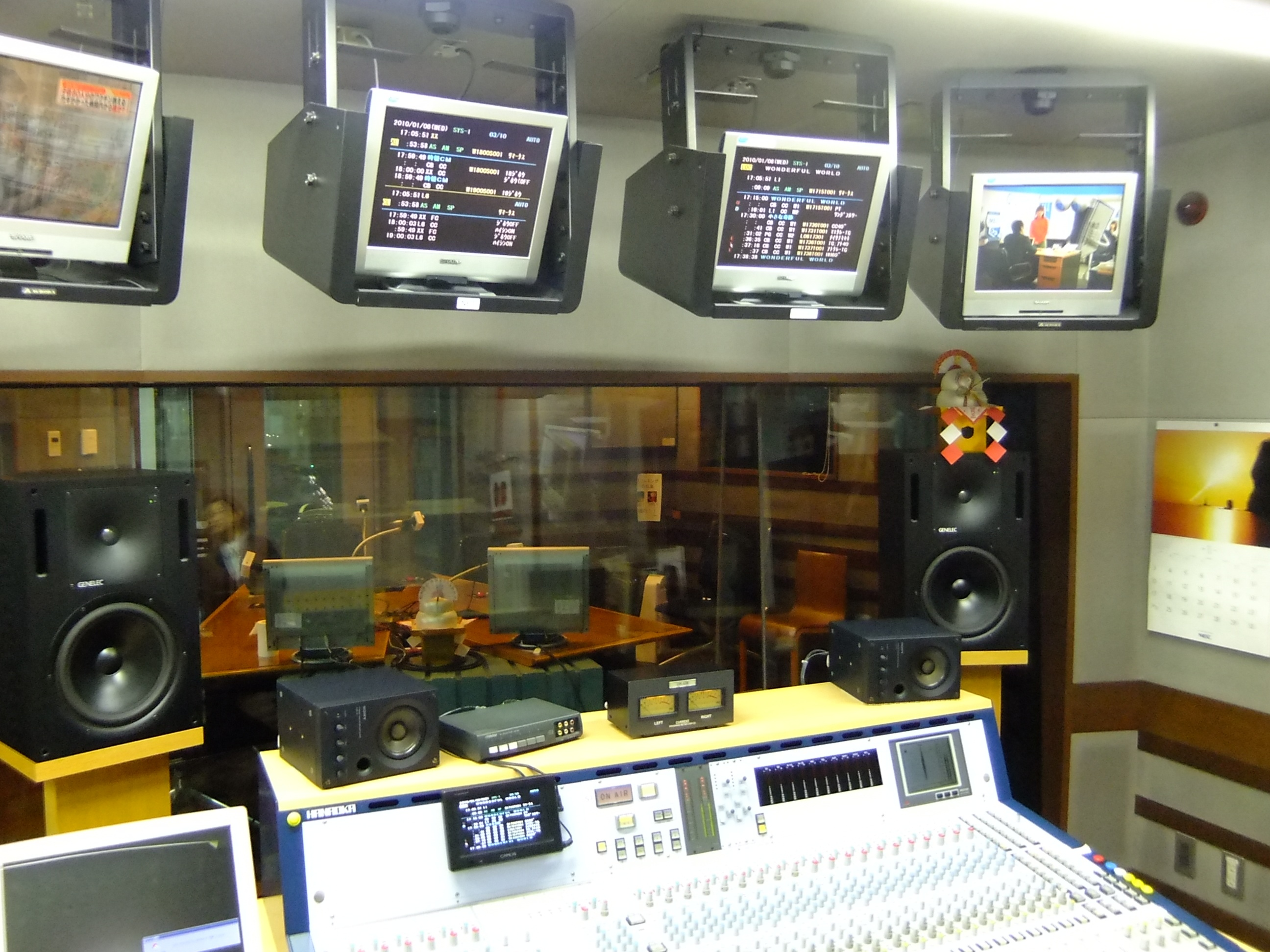 This is the engineers room; the presenters sit the other side of the glass. The computer monitors are showing what's next (the Selector log, if you like) - one for Tokyo FM and one for the JFN network.